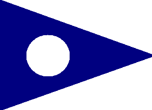 Union Army I Corps, 2nd Division Badge, 1st Brigade